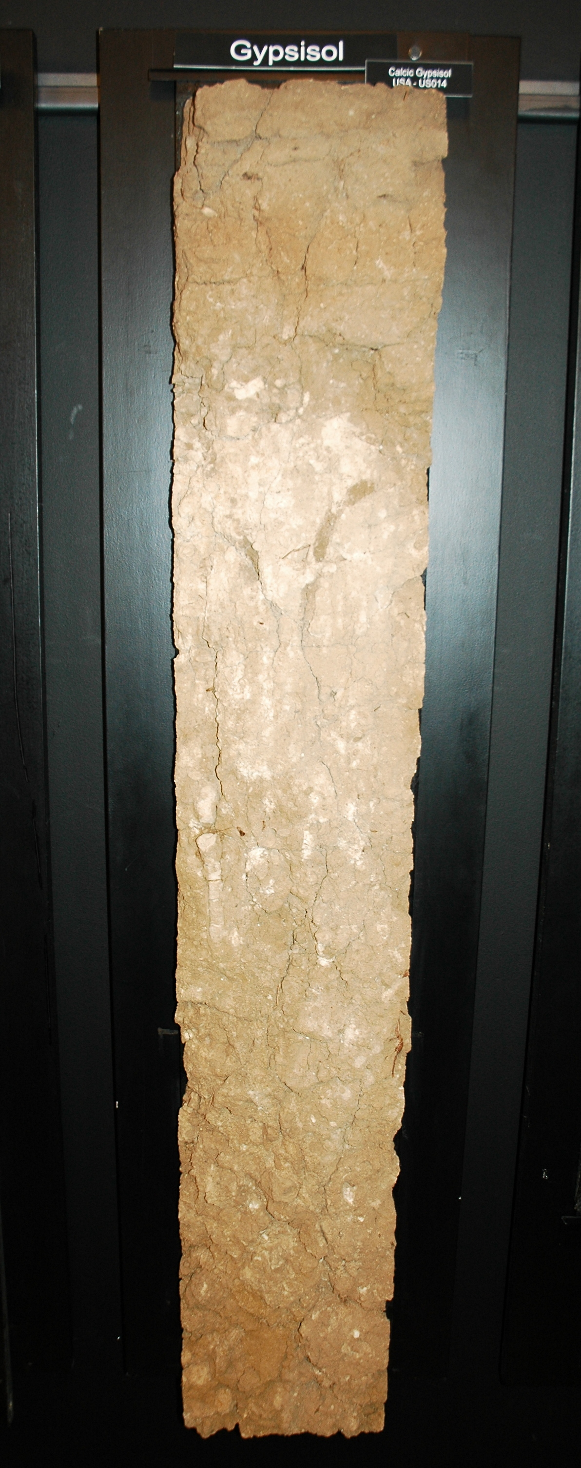 Soil profile of a Calcic Gypsisol